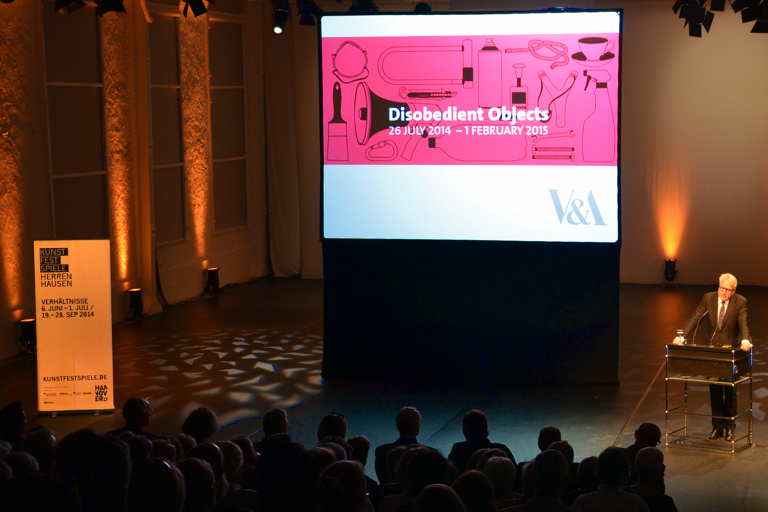 Martin Roth, director of the Victoria and Albert Museum in London, here in 2014 at the openning of the KunstFestSpiele Herrenhausen in Hanover ...